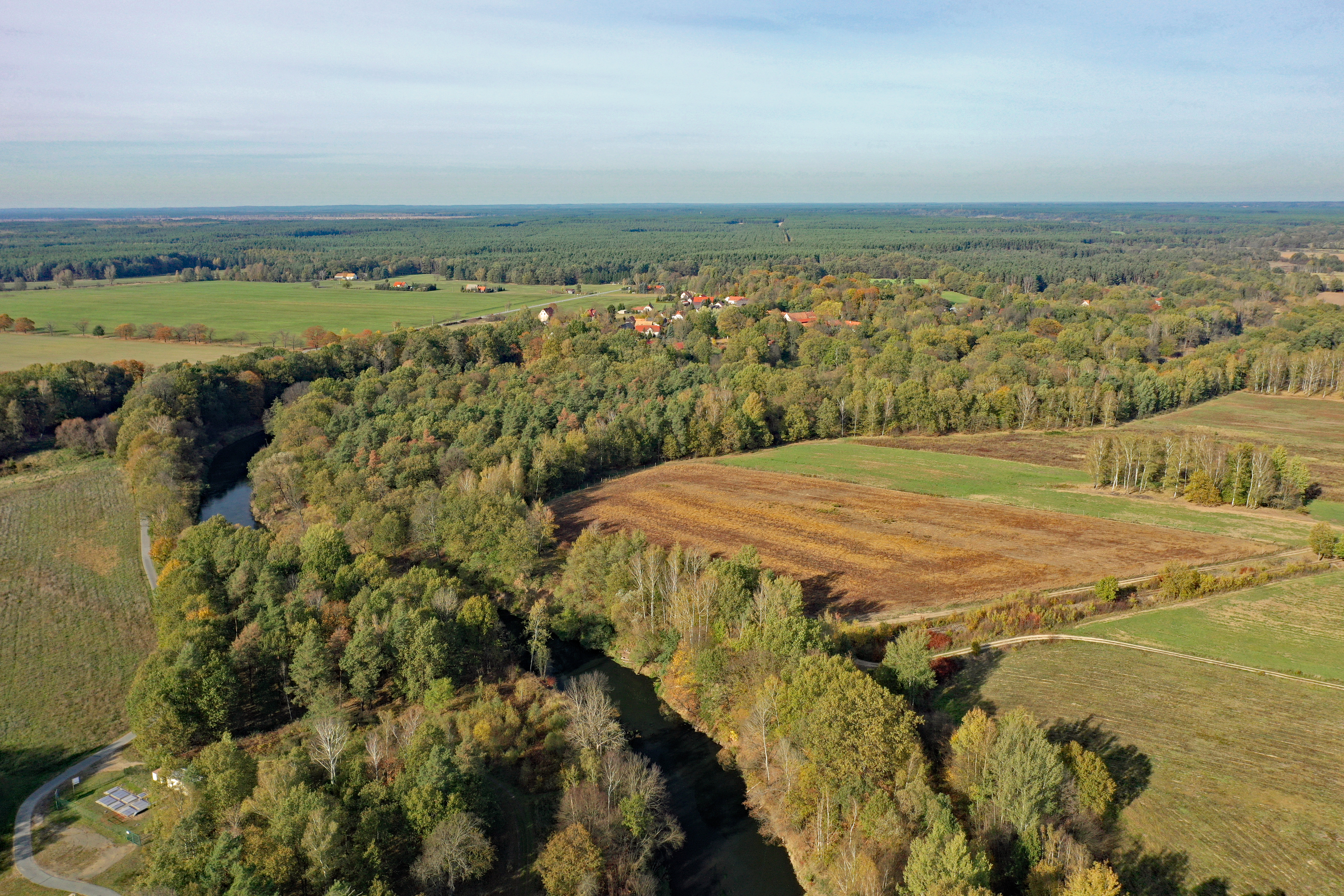 Steinbach (Rothenburg/O.L., Landkreis Görlitz, Saxony, Germany)